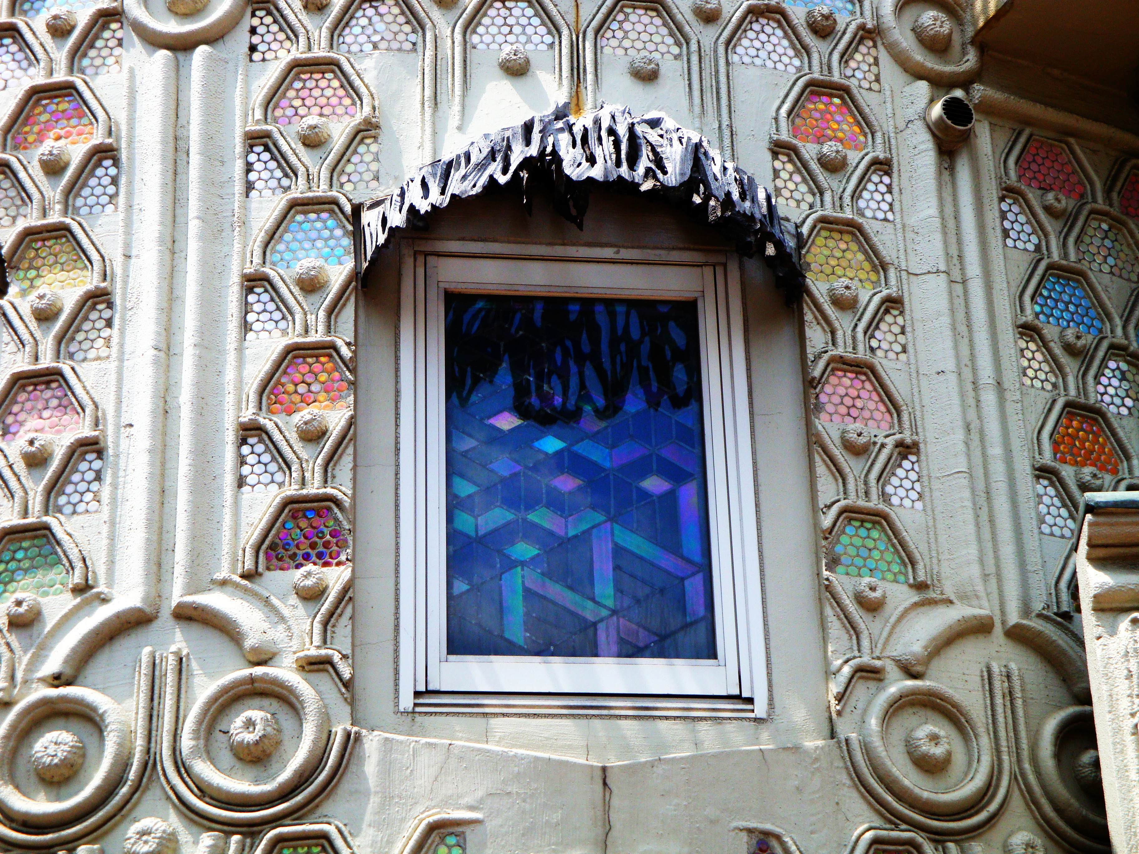 "Waseda El Dorado" Building by Von Jour Caux (Toshiro Tanaka), near the Waseda University Campus, Shinjuku, Tokyo